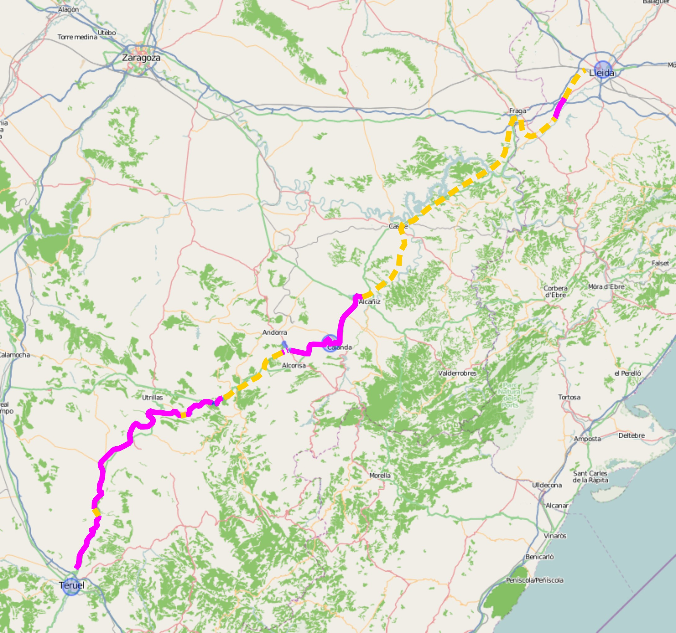 Railway Teruel Lleida, Spain. Purple: (partially) constructed, yellow: no construction